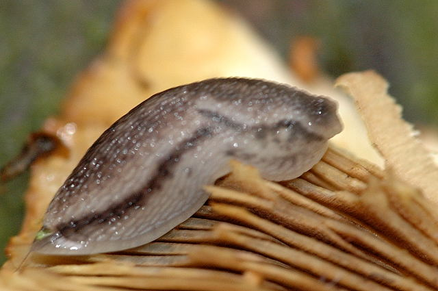 Picture taken in Commanster, Belgian High Ardennes . Species: Arion circumscriptus